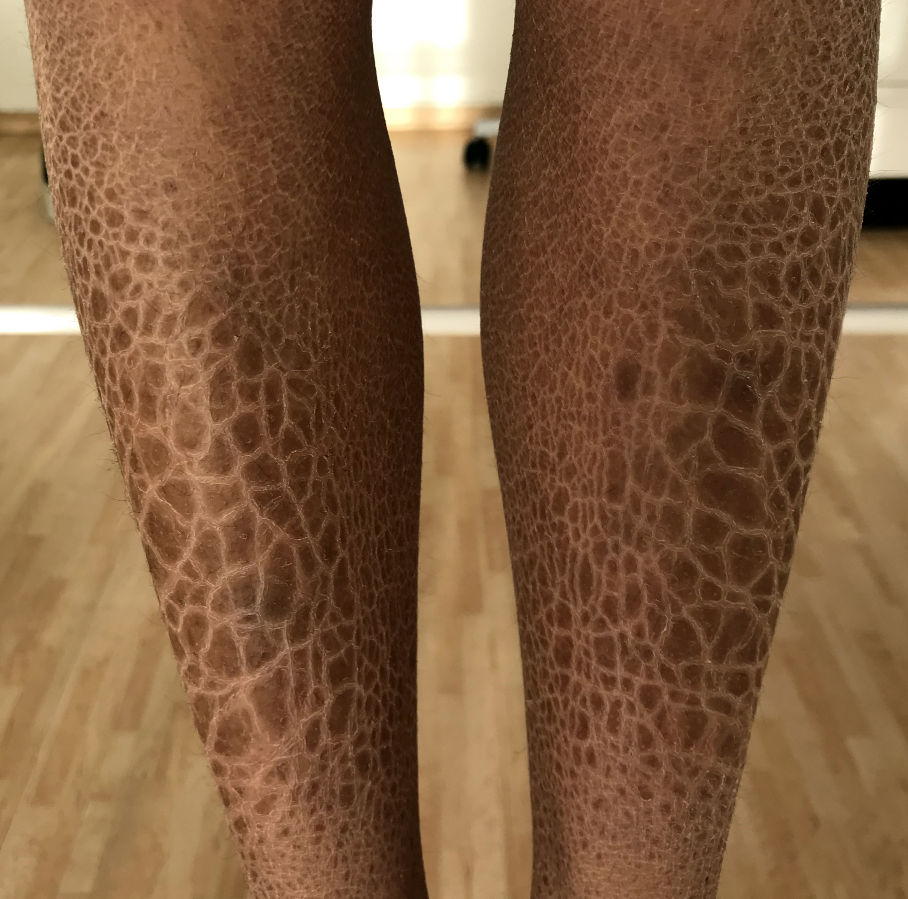 Ichthyosis vulgaris in a 12 years old child.